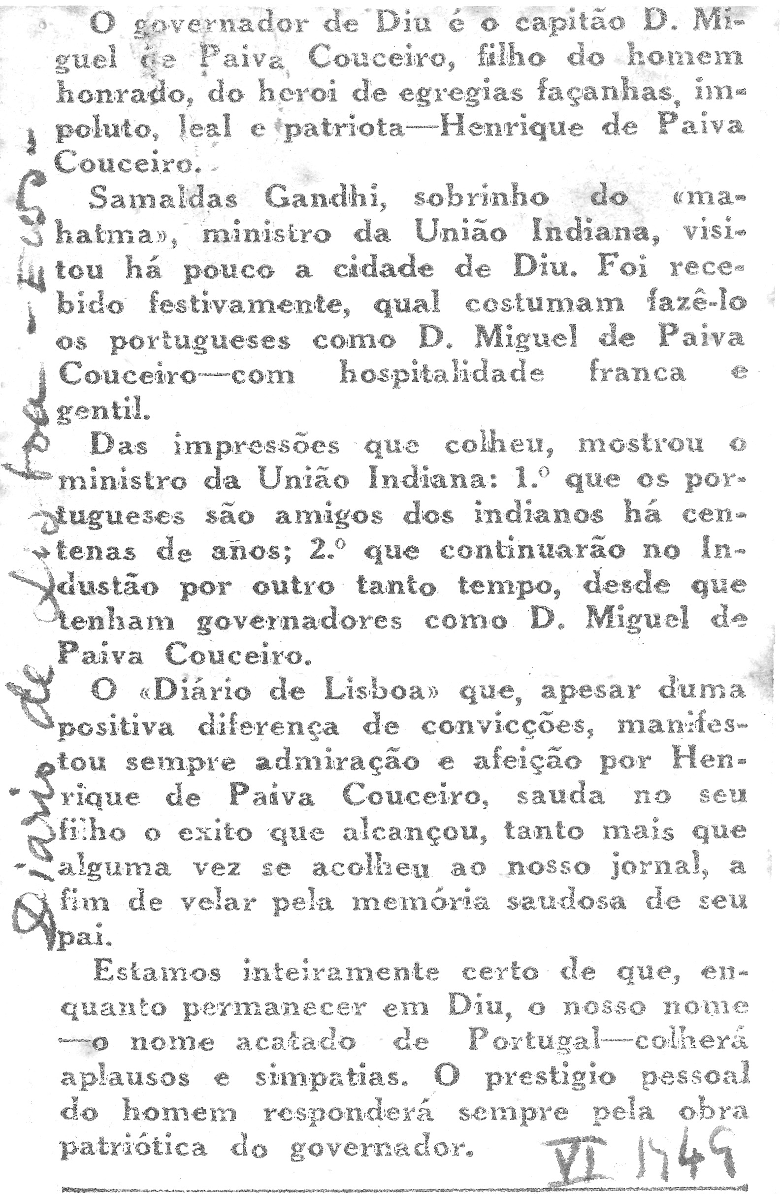 Diário de Notícias